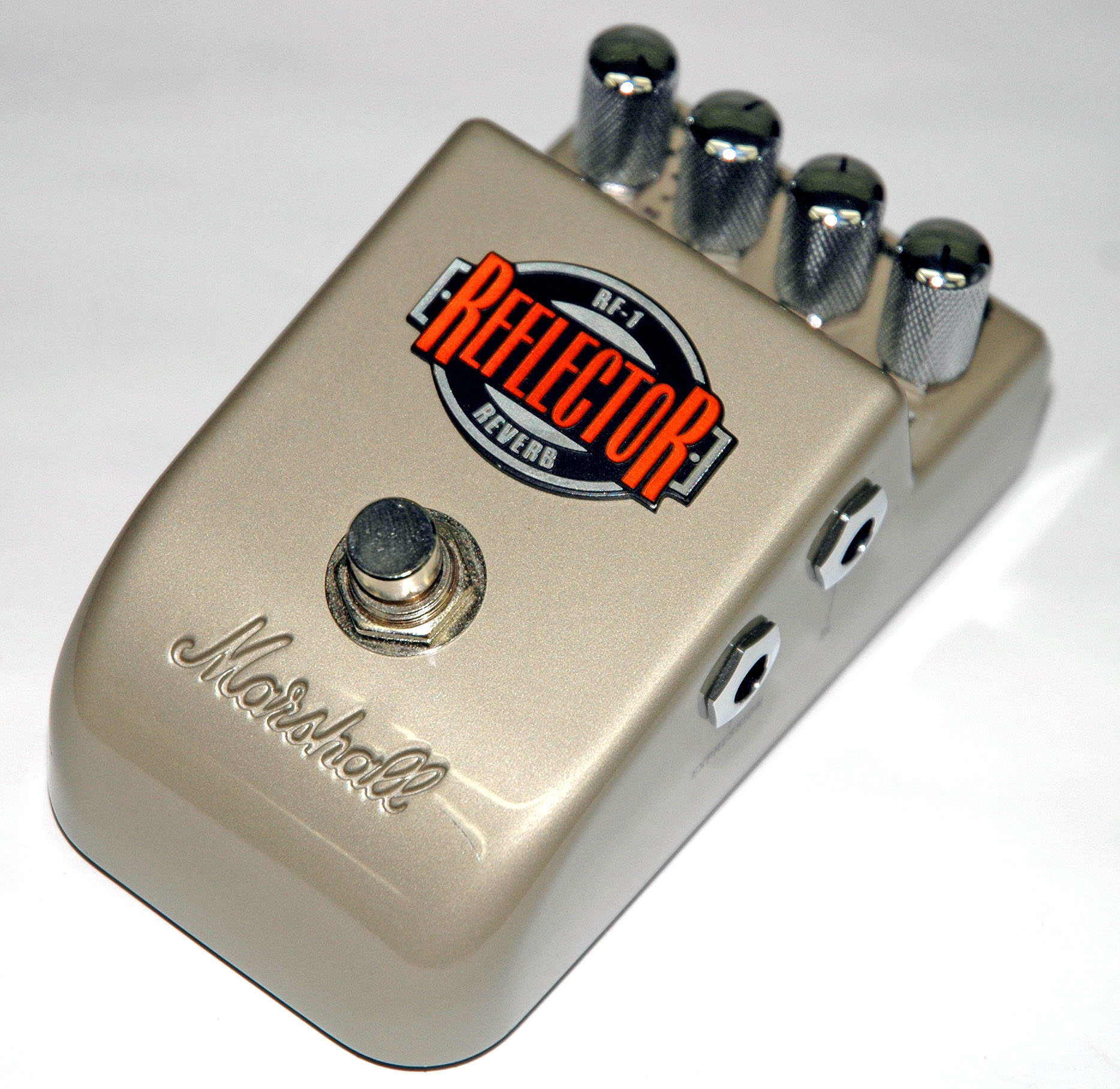 Reflector Reverb effects pedal made by Marshall